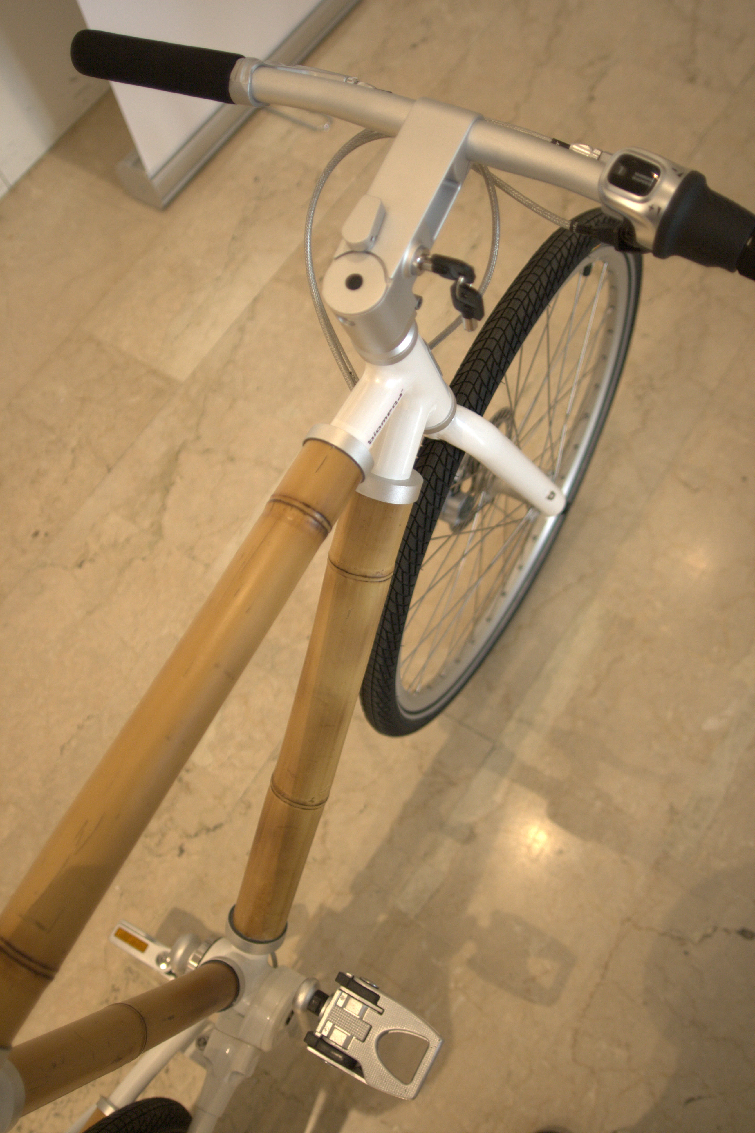 Milano design week 2009 / Biomega Bamboo Bike / Made in Finland